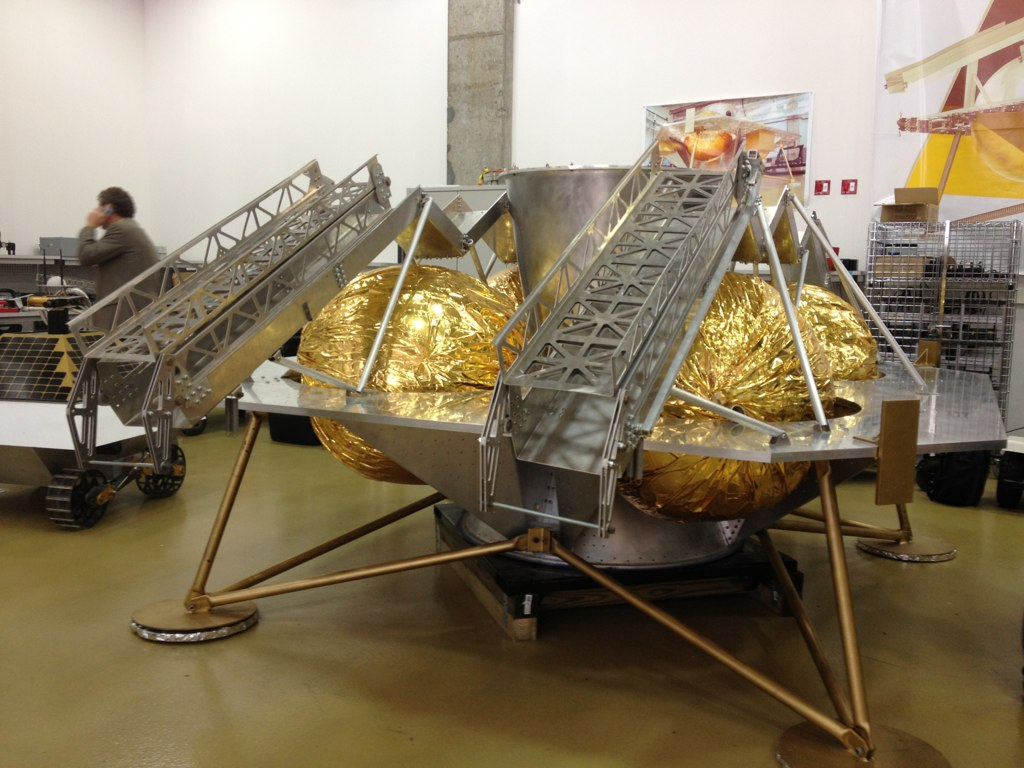 This lander is intended to one day land on the moon's surface, and release a robotic moon rover.